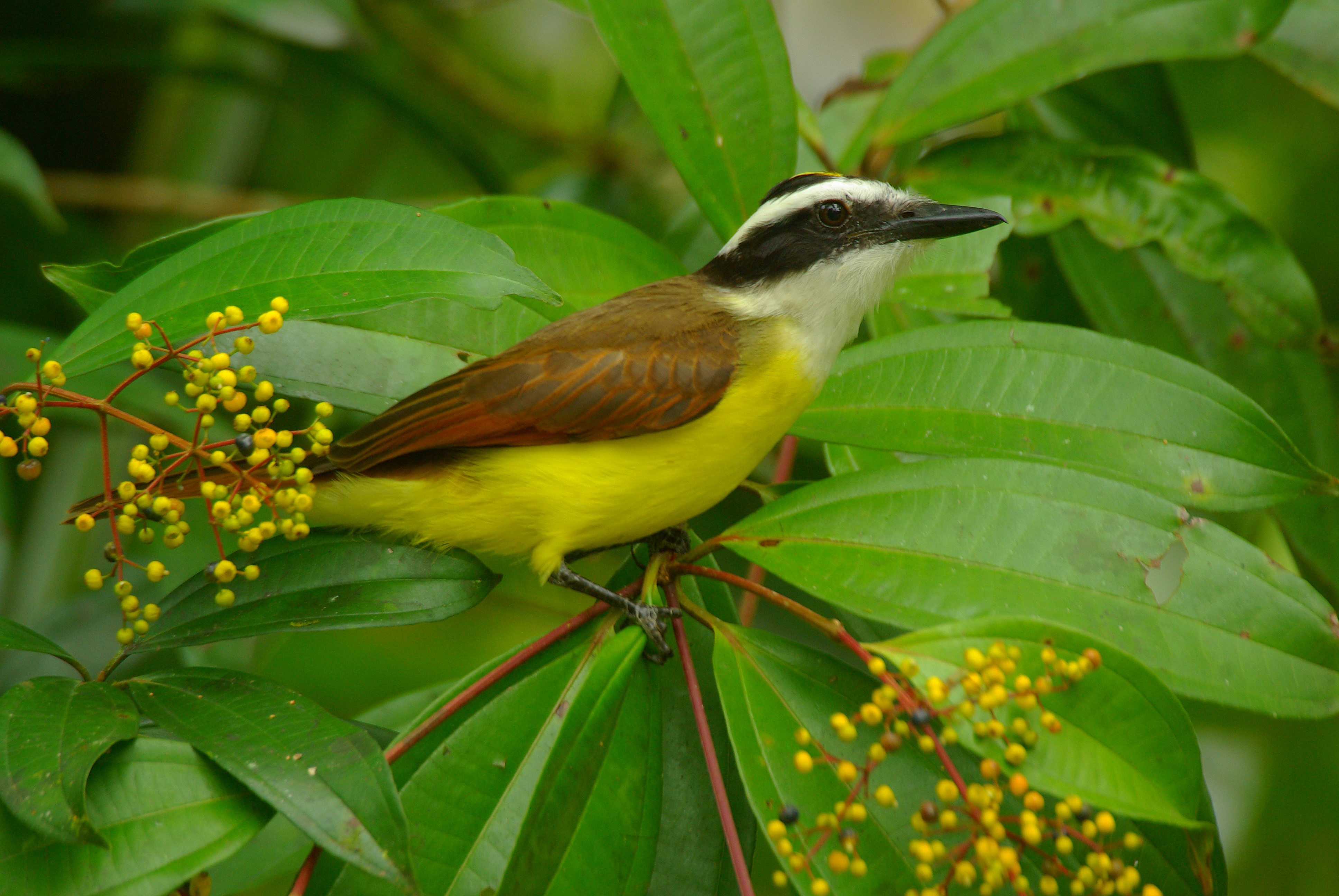 Great Kiskadee (Pitangus sulphuratus). Biological station La Selva, Costa Rica, December 2011